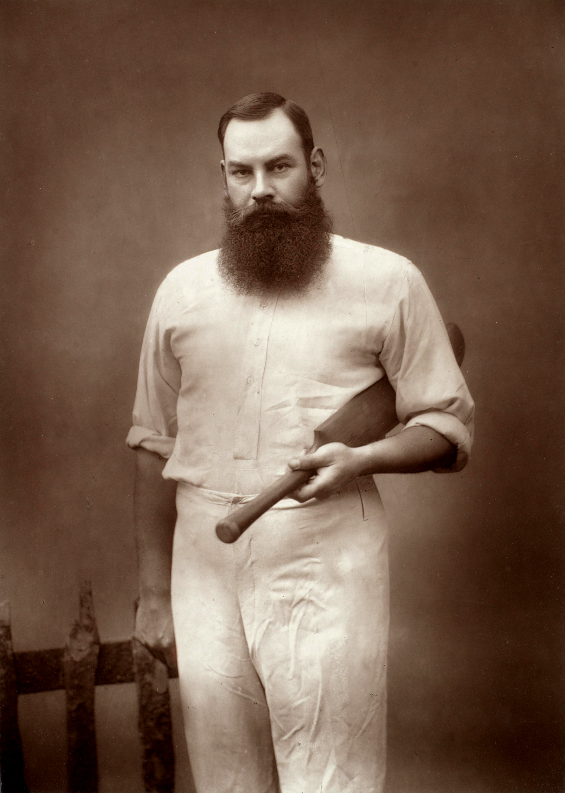 Portrait of W. G. Grace, cricketer, Woodburytype, 9.7 x 7.1 in (247 mm x 180 mm)